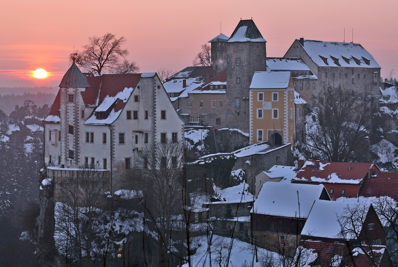 Hohnstein Castle, Saxon Switzerland.